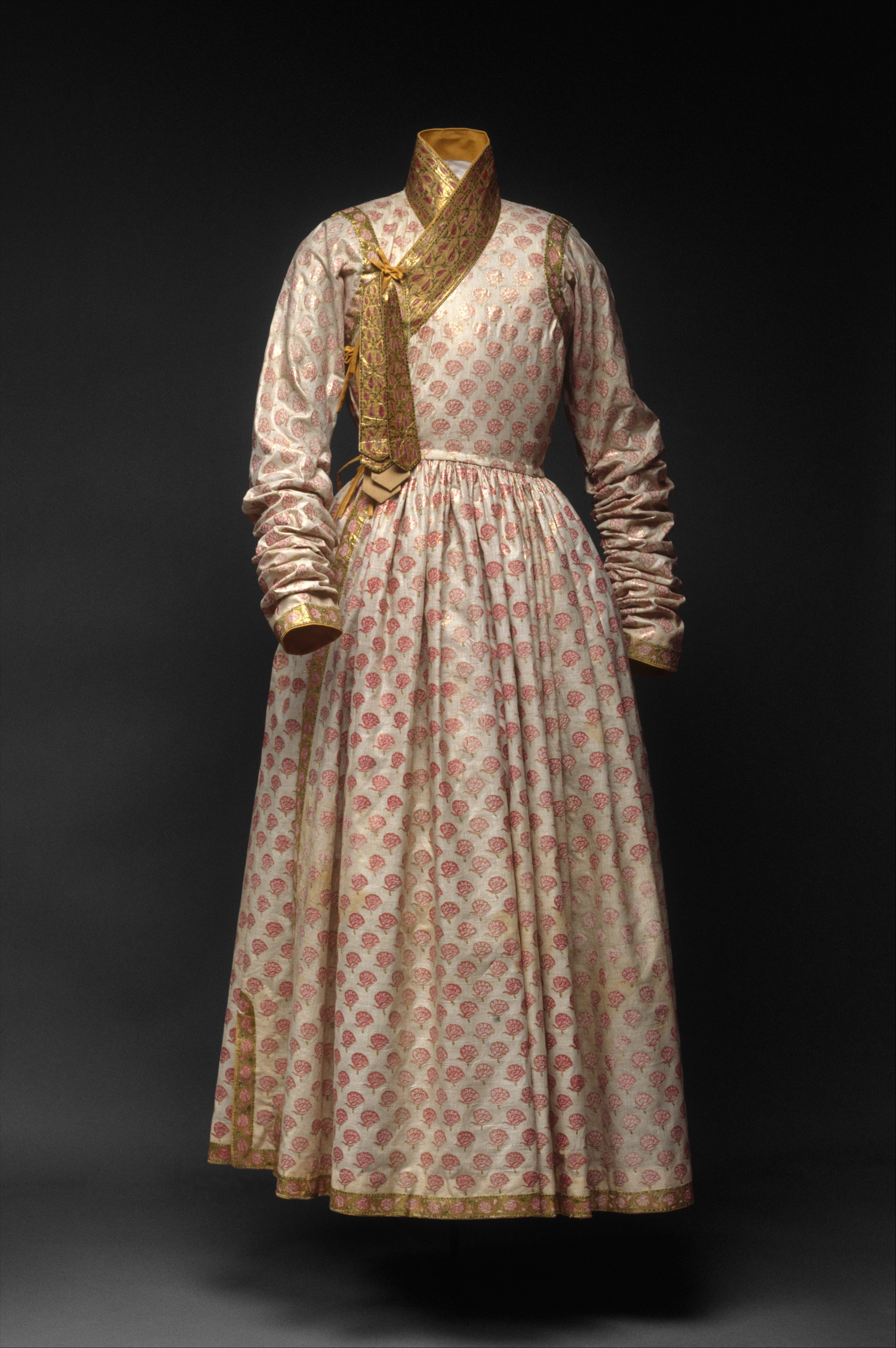 Robe; Textiles-Costumes